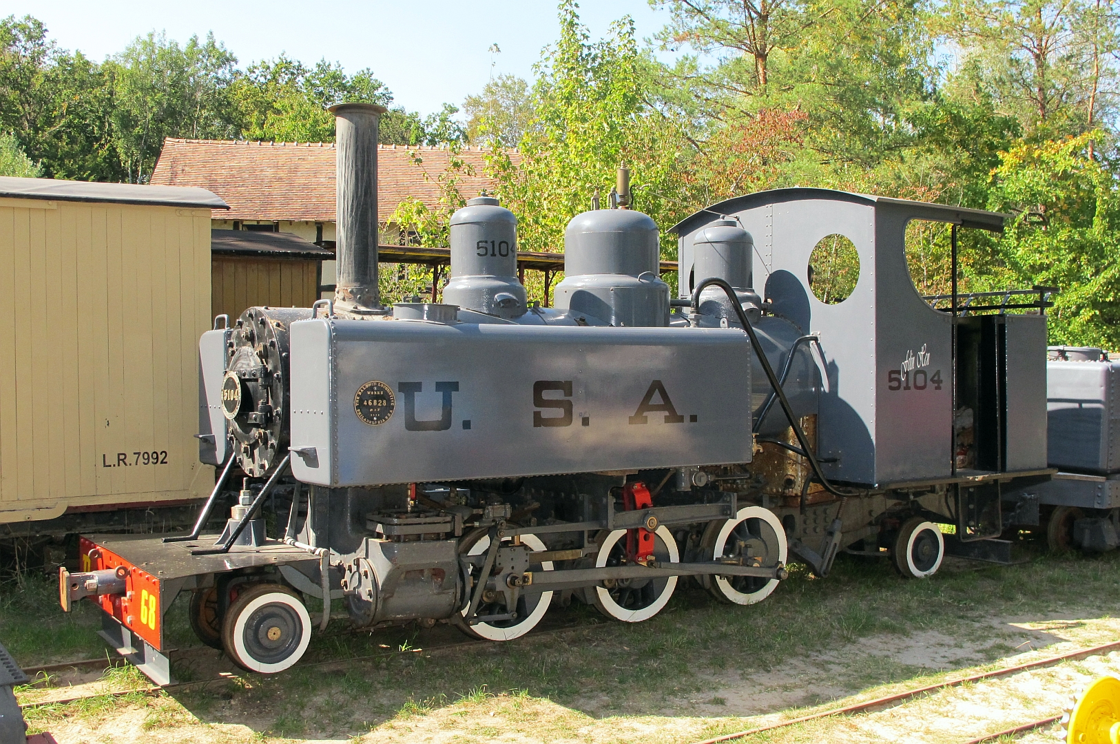 Baldwin No. 46828 2-6-2T locomotive built in 1917 and preserved by the Tacot des Lacs railway in France (Seine-et-Marne).